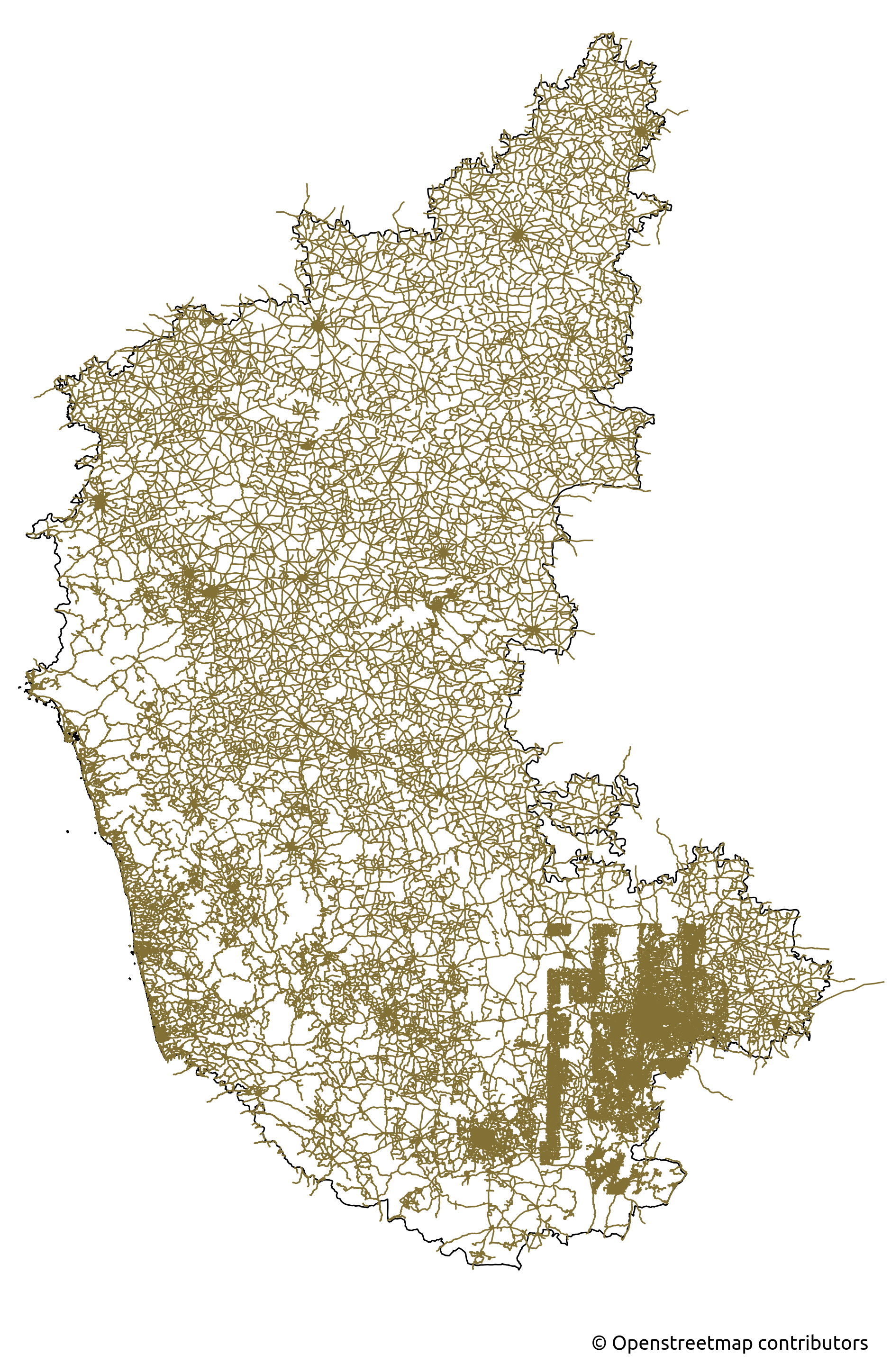 Road density of Karnataka as mapped in Openstreetmap as on Feb 2015